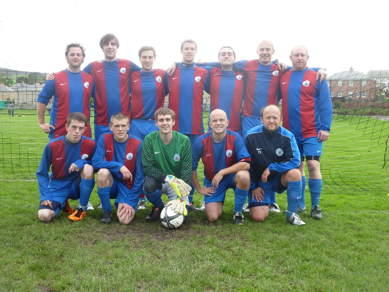 Photo of Douglas & District FC from the Isle of Man, 08/10/11 v Police. Photo given to club by Isle of Man Newspapers reporter Paul Hatton. Posted by club secretary Dave Mathieson (2013).